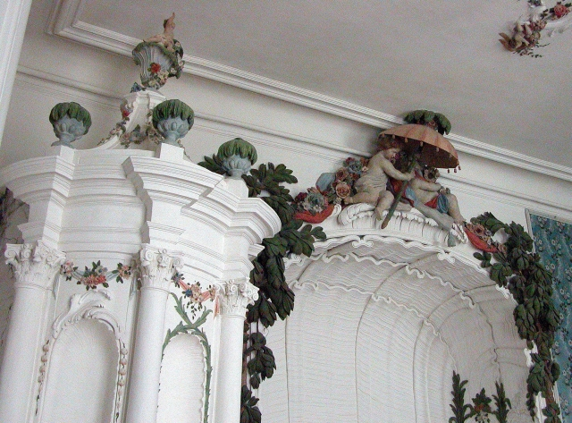 Pilsrundāle, Latvia: Baroque Stucco ornaments.